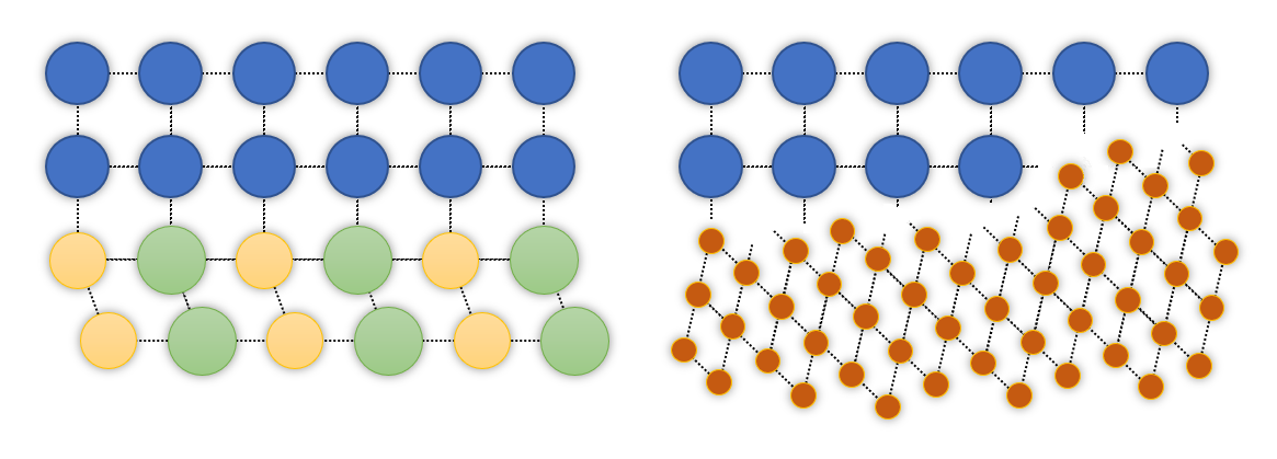 On the left there is an example of a coherent phase boundary, whose formation is made possible by the similarity of the two phases in terms of the lattice step; on the right there is an example of an incoherent phase boundary.